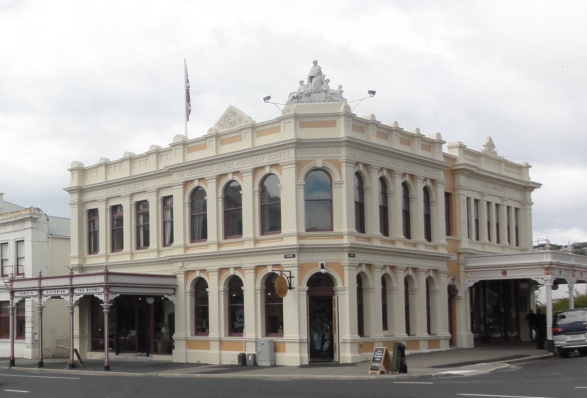 former A.M.P. Building, Oamaru, Otago, NZ